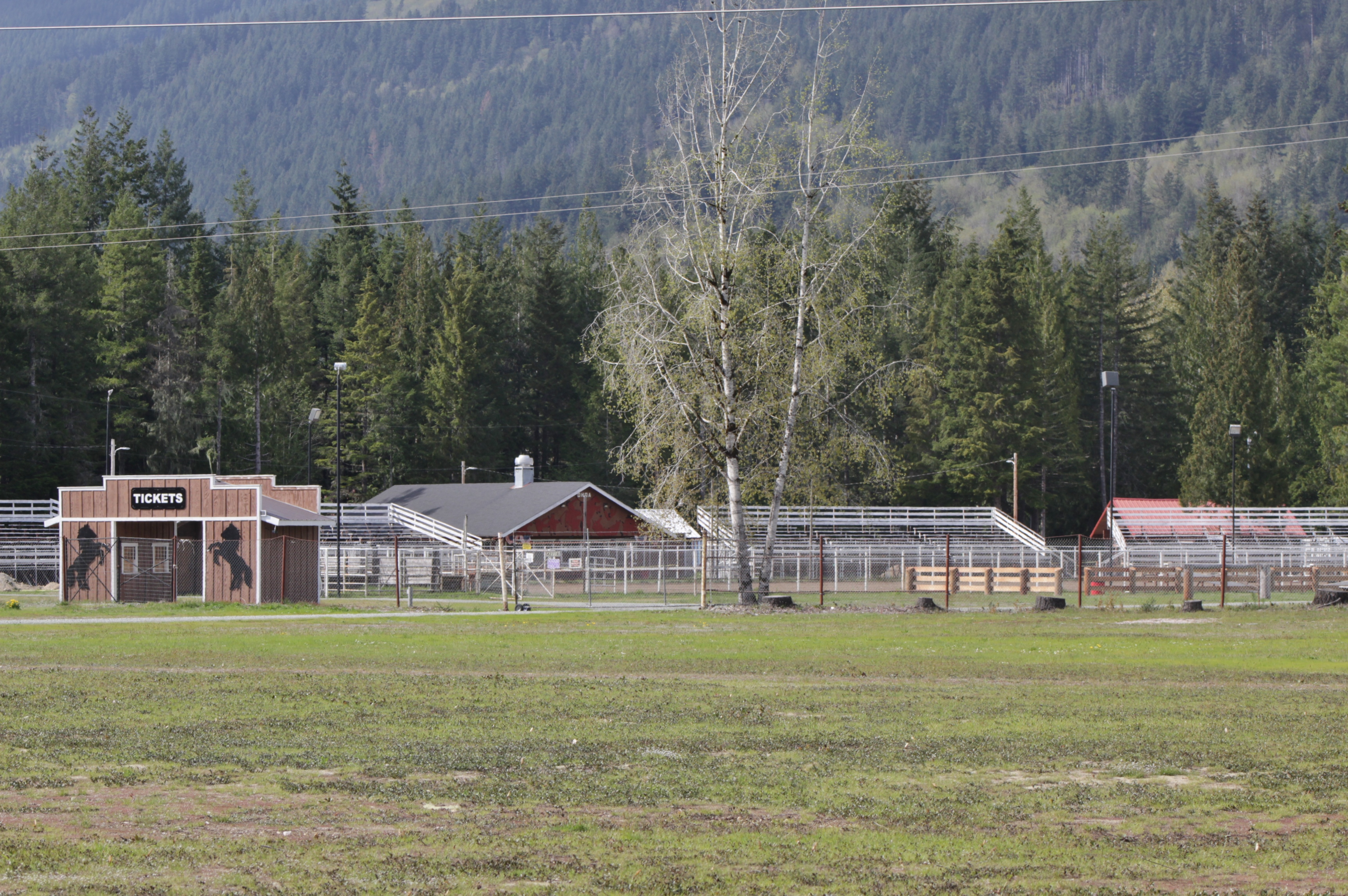 The rodeo grounds west of Darrington, Washington.